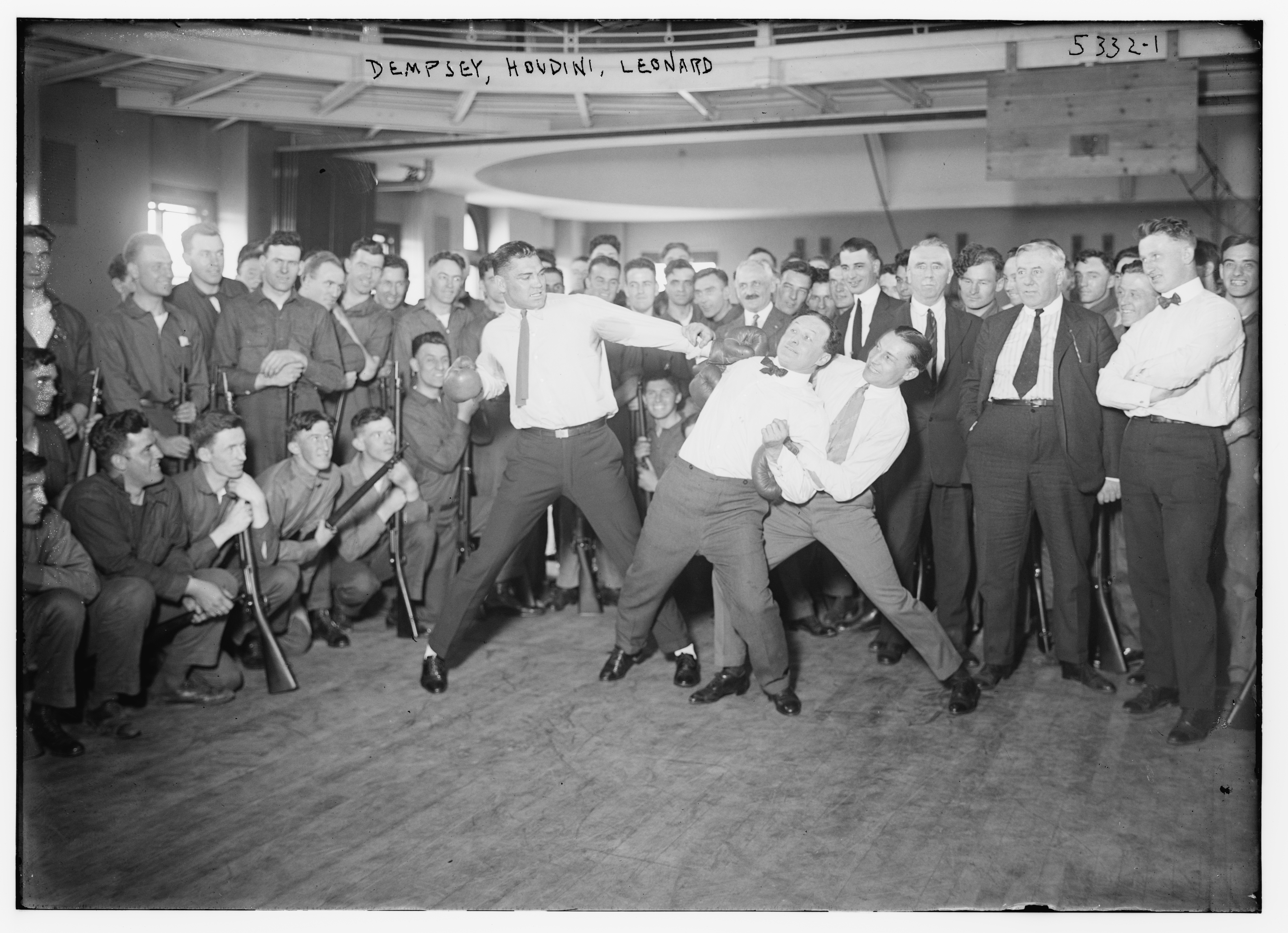 "Dempsey, Houdini, Leonard (boxing)". 1 negative : glass ; 5 x 7 in. or smaller. Jack Dempsey (l), Harry Houdini (center), and Benny Leonard (r) spar at a publicity event.